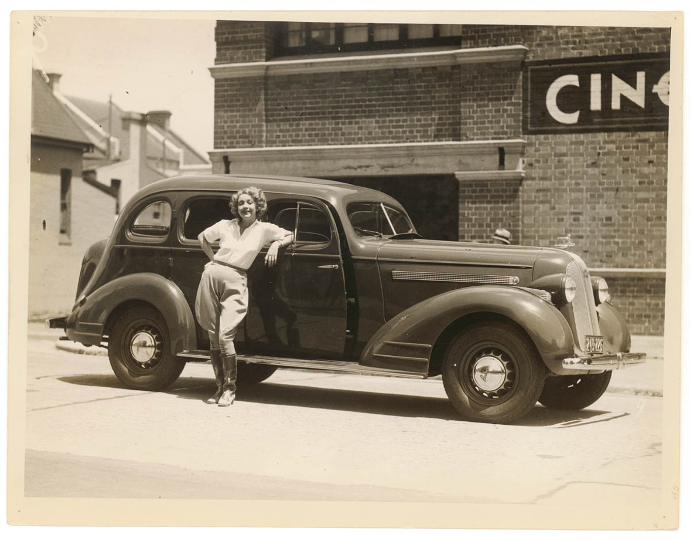 Format: Silver gelatin photograph Notes: One of the first American women to star in an Australian film From the collections of the Mitchell Library, State Library of New South Wales Information about photographic collections of the State Library of New South Wales: .au/search/SimpleSearch.aspx Persistent url: .au/item/itemDetailPaged.aspx?itemID=153778